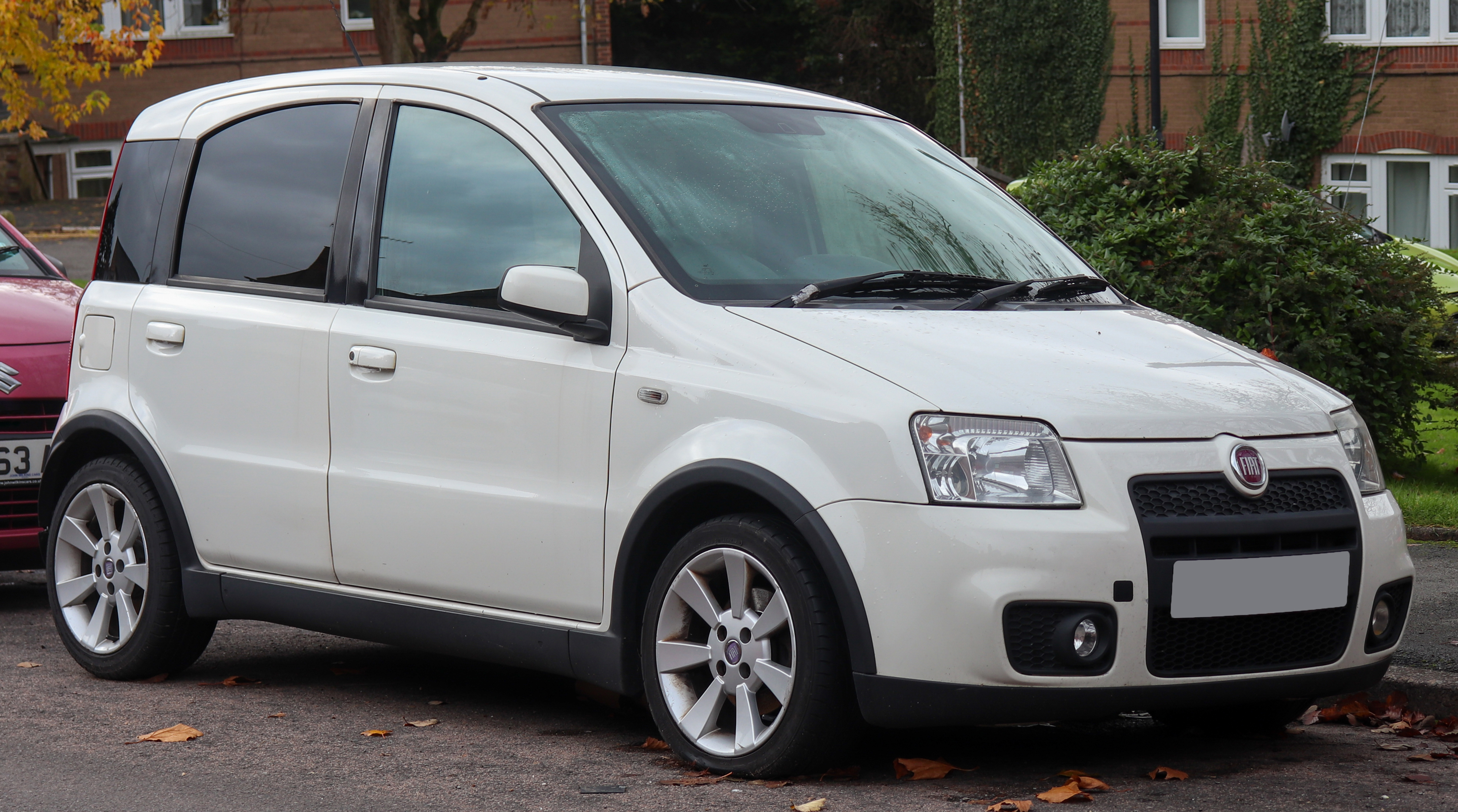 2009 Fiat Panda 100HP 1.4 Front Taken in Leamington Spa